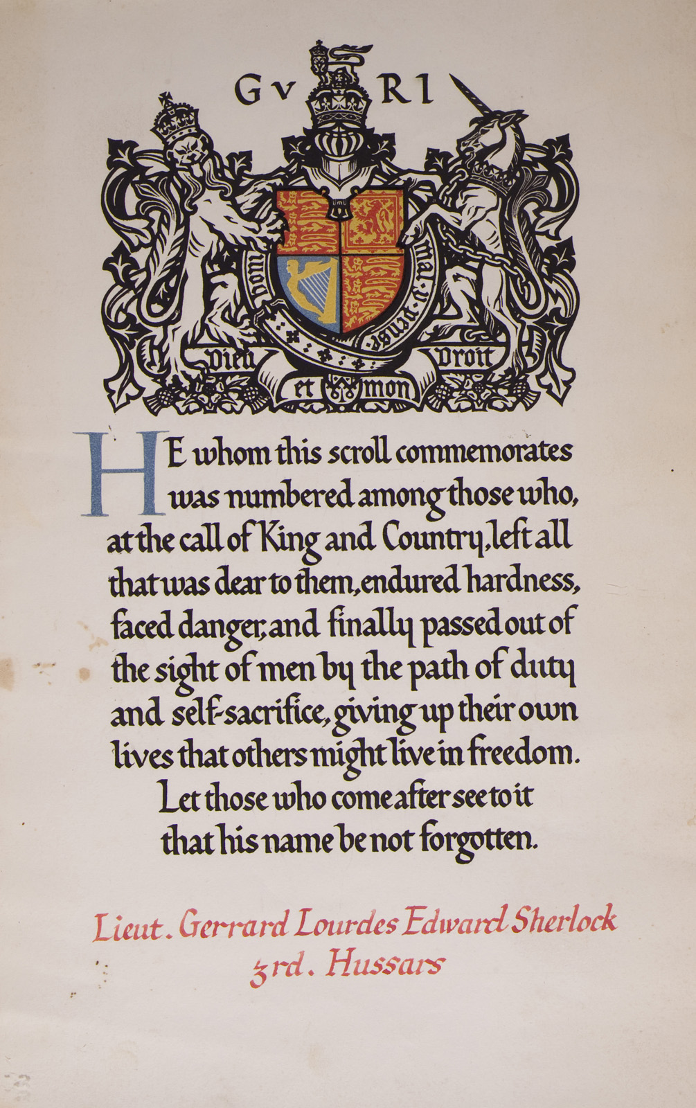 These items were left to me by my late mother - I have the Military cross, the service medals and the name tag of Major Edward Sherlock, my father who was born in 1886. He served in the Royal Field Artillery and was in charge of supplies. He was 'invalided out' with a heart problem circa 1918. He lived in Tullamore, Co. Offaly until his death in 1953 aged 67. I also have the medals of Captain Gerard Sherlock who was a career soldier killed in action in the German Cameroons in 1915 when he went to the aid of a German soldier.